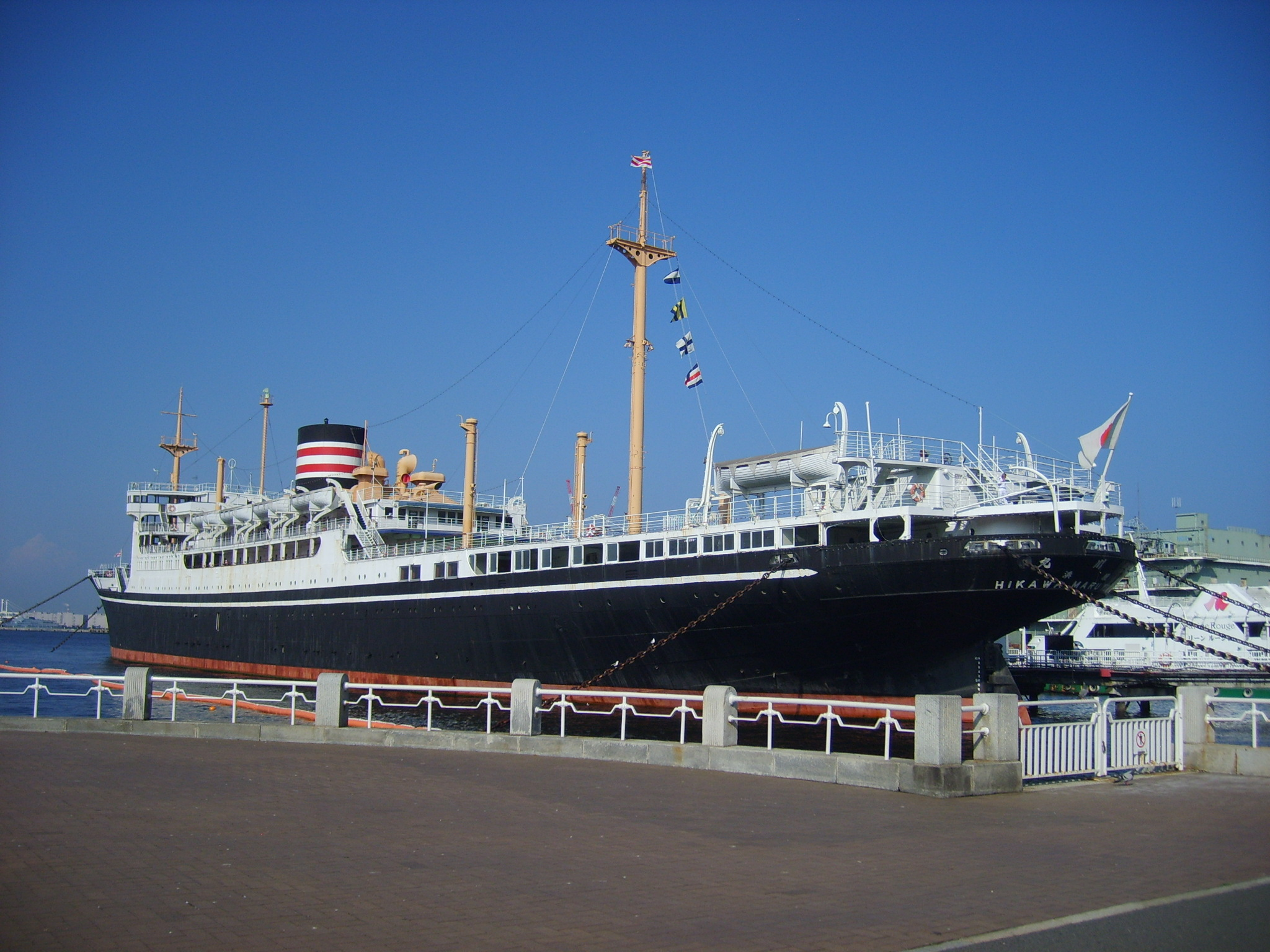 Hikawamaru at Yokohama